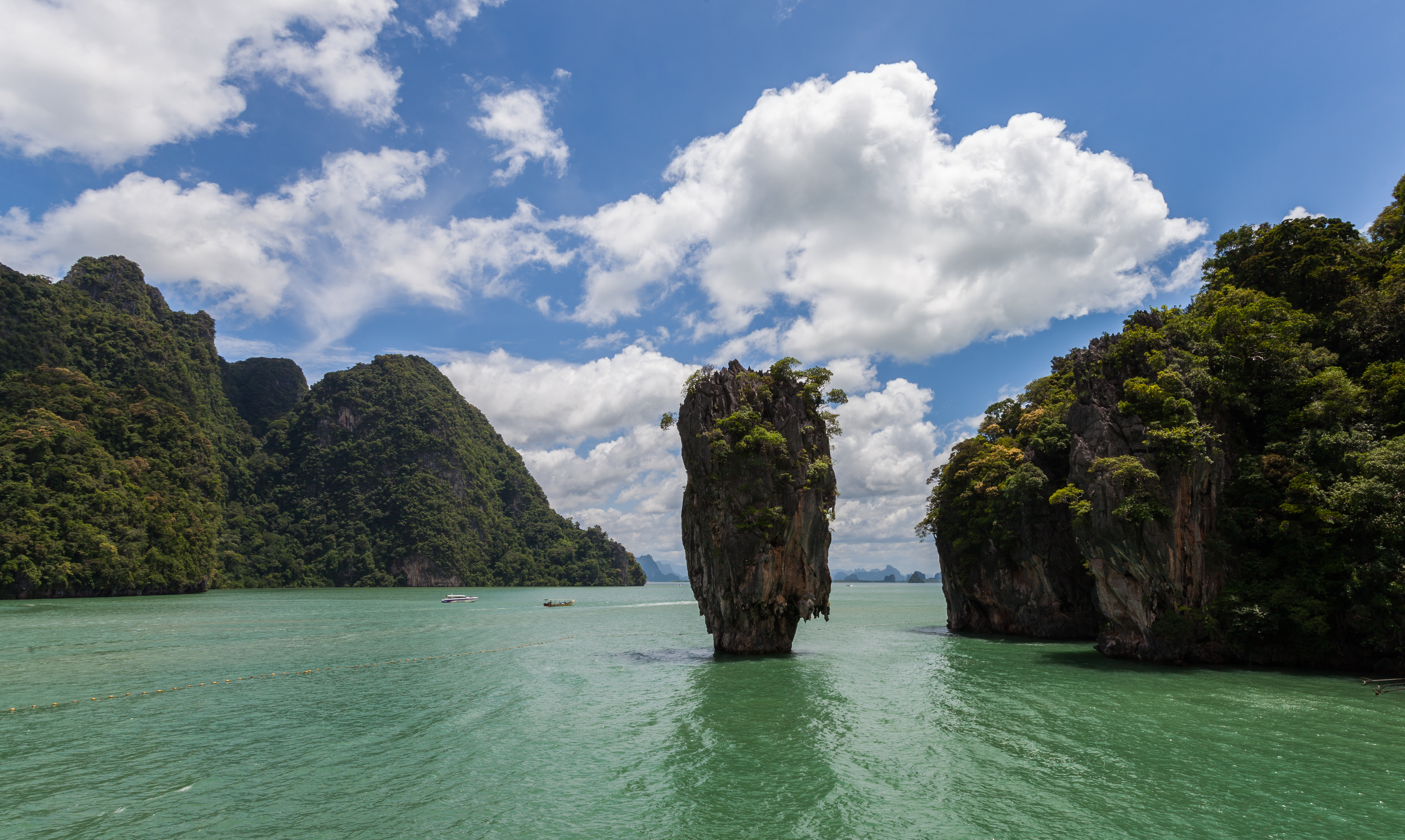 Tapu Island, Phuket, Thailand